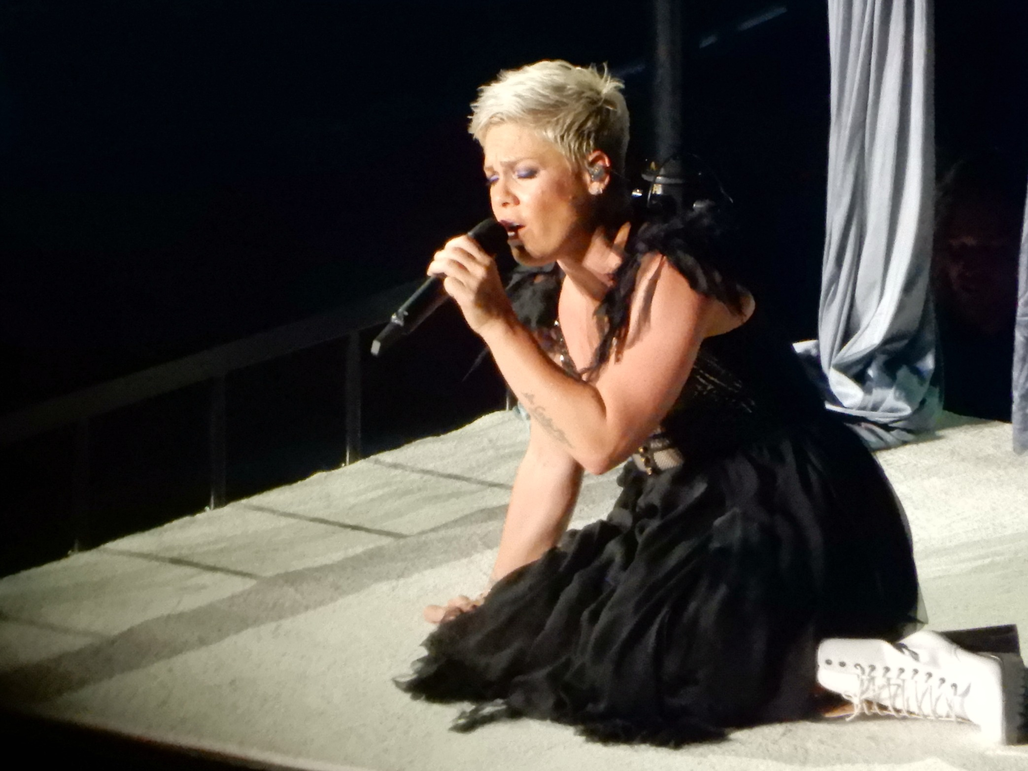 Pink at Madison Square Garden